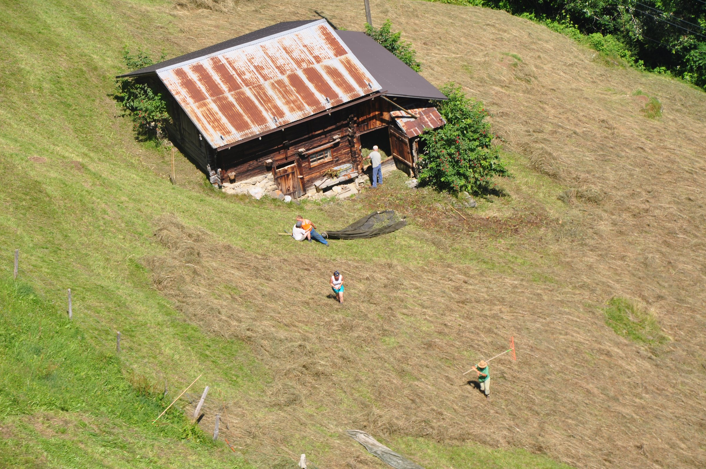 Switzerland, Canton of Bern, Hay harvest in Gimmelwald